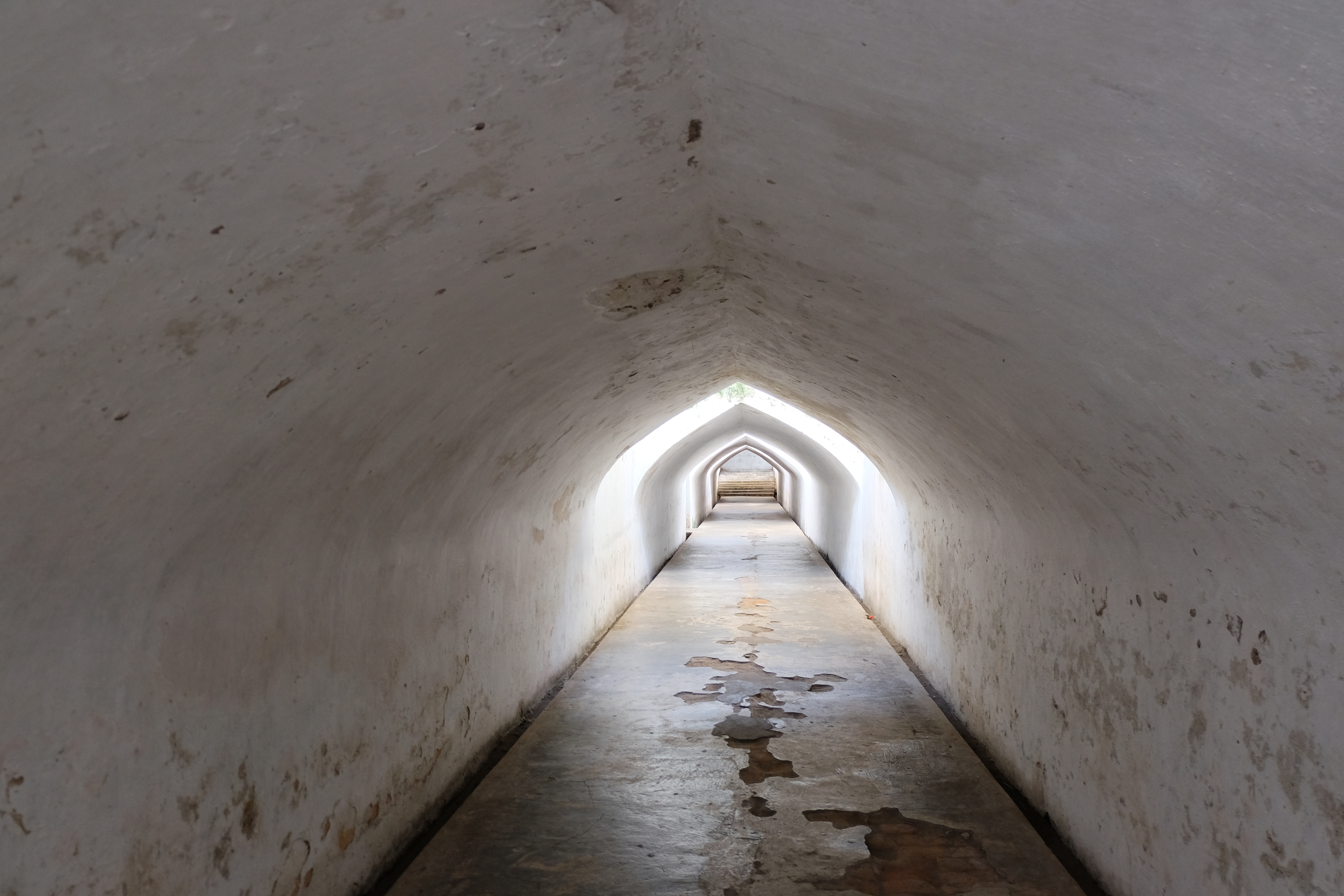 Underground tunel, Taman Sari, Yogyakarta